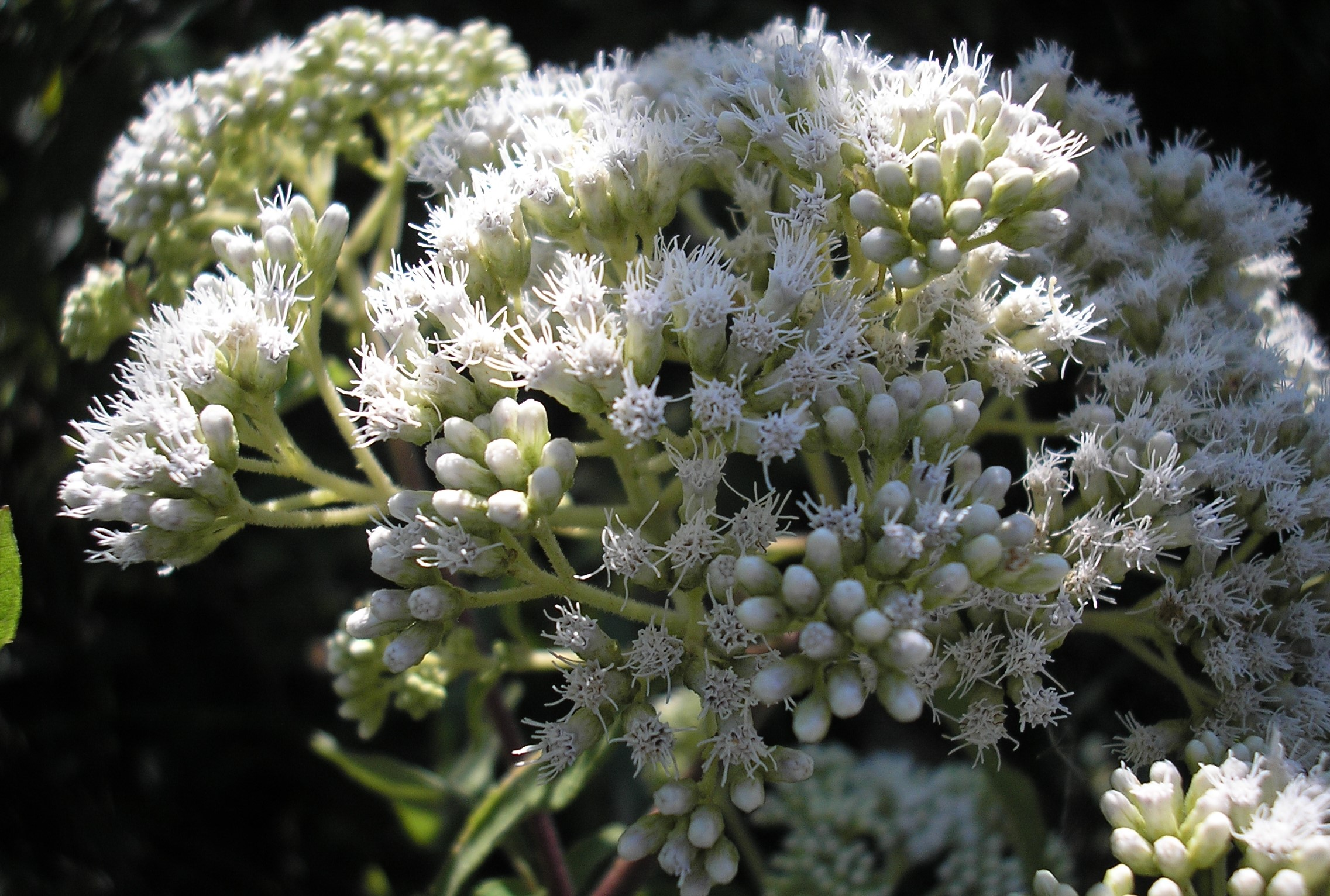 Inflorescence detail of Ophryosporus macrodon